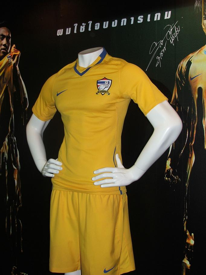 Thailand national football team home kit 2009-10. They were all yellow which is the color of the king Bhumibol Adulyadej. It was produced by Nike. and dubuted in November 4, 2008 at Rajamangala Stadium. This photo was photographed by เล็กเส้นผัดสีอิ้ว from Thailandsusu Webboard.